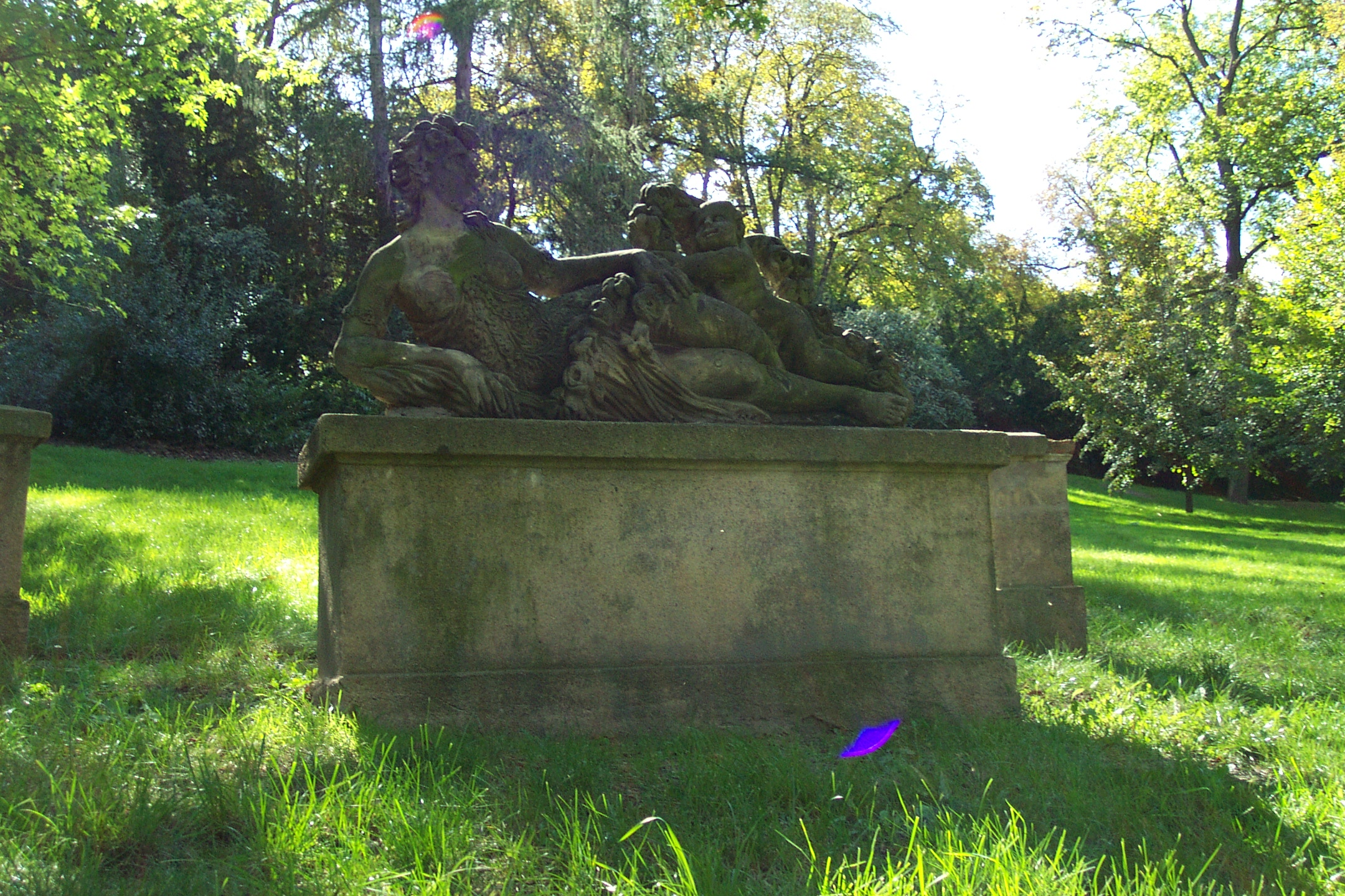 Statue in Santoška park in Prague-Smíchov,CZ